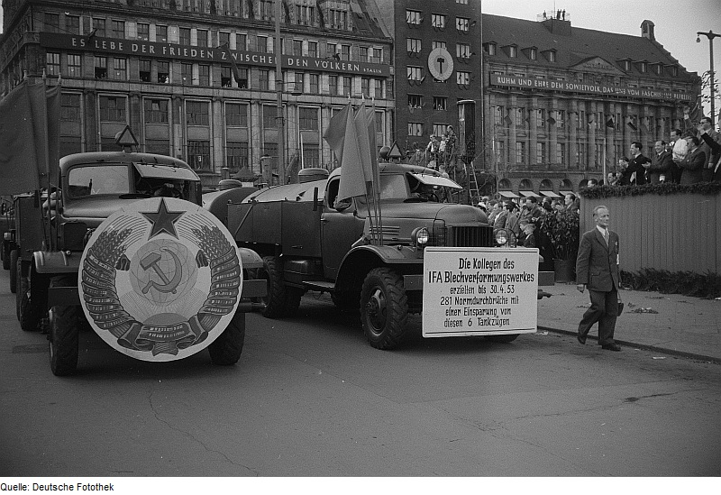 Original image description from the Deutsche Fotothek Demonstrationszug - IFA Blechverformungswerk